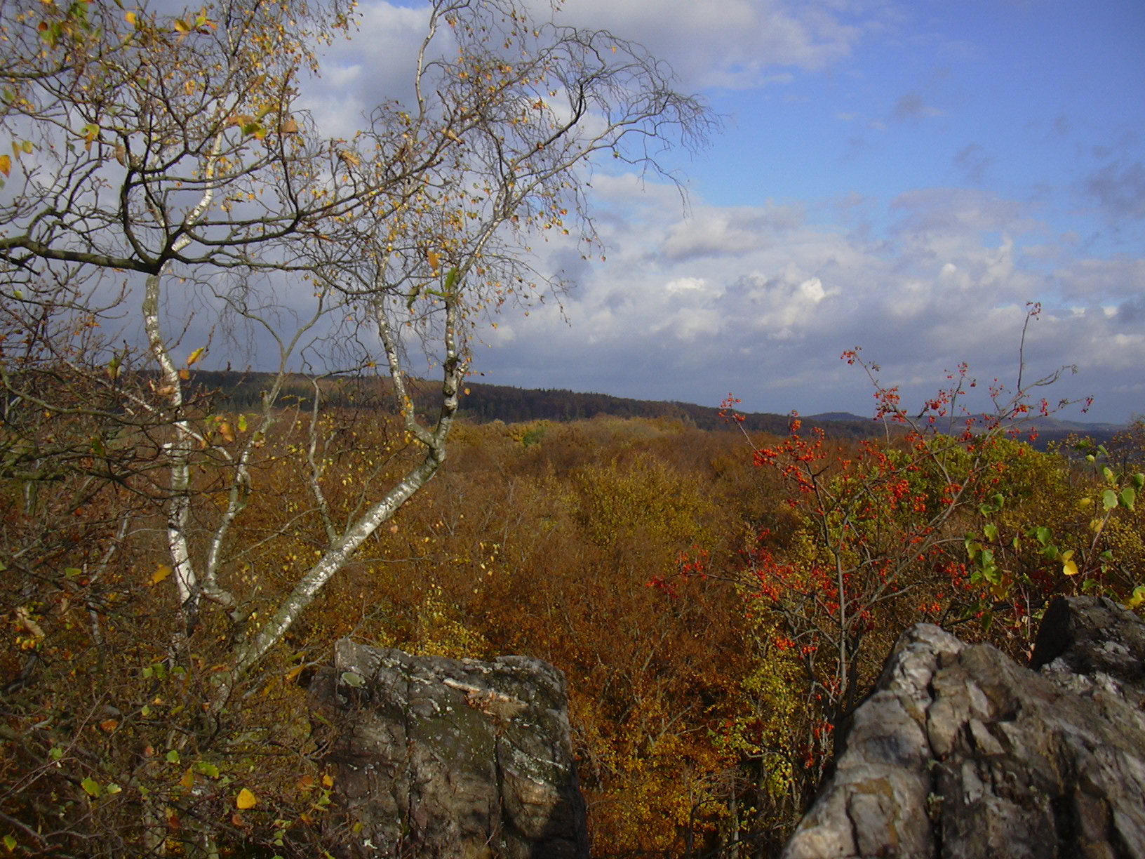 View from the Výrovka rocky outcrop in Křivoklátsko protected area, Czech Republic